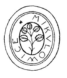 Municipal seal of the municipality Mikulovice from year 1754